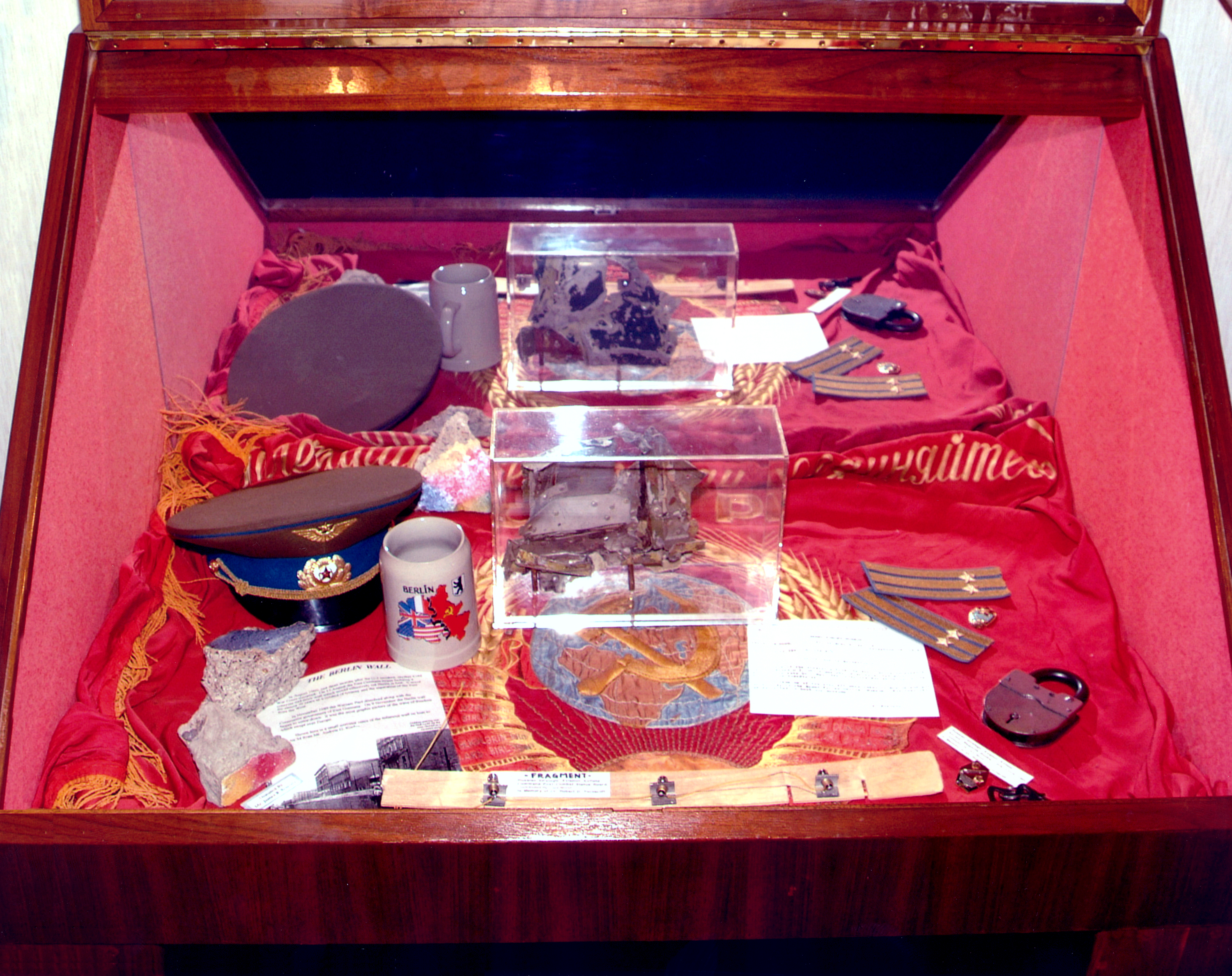 U–2 Incident exhibit (search for "U-2 Incident Exhibit") at the National Cryptologic Museum with a piece of Powers’s U–2 aircraft among other items